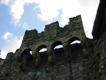 Particular of Sarriod de la Tour castle in Aosta Valley